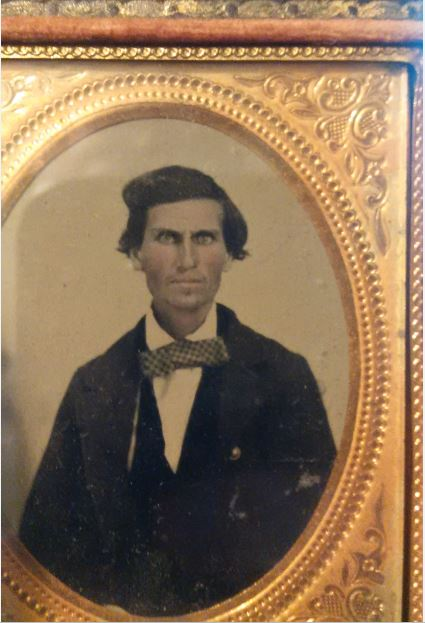 Added daguerreotype of Robert James.